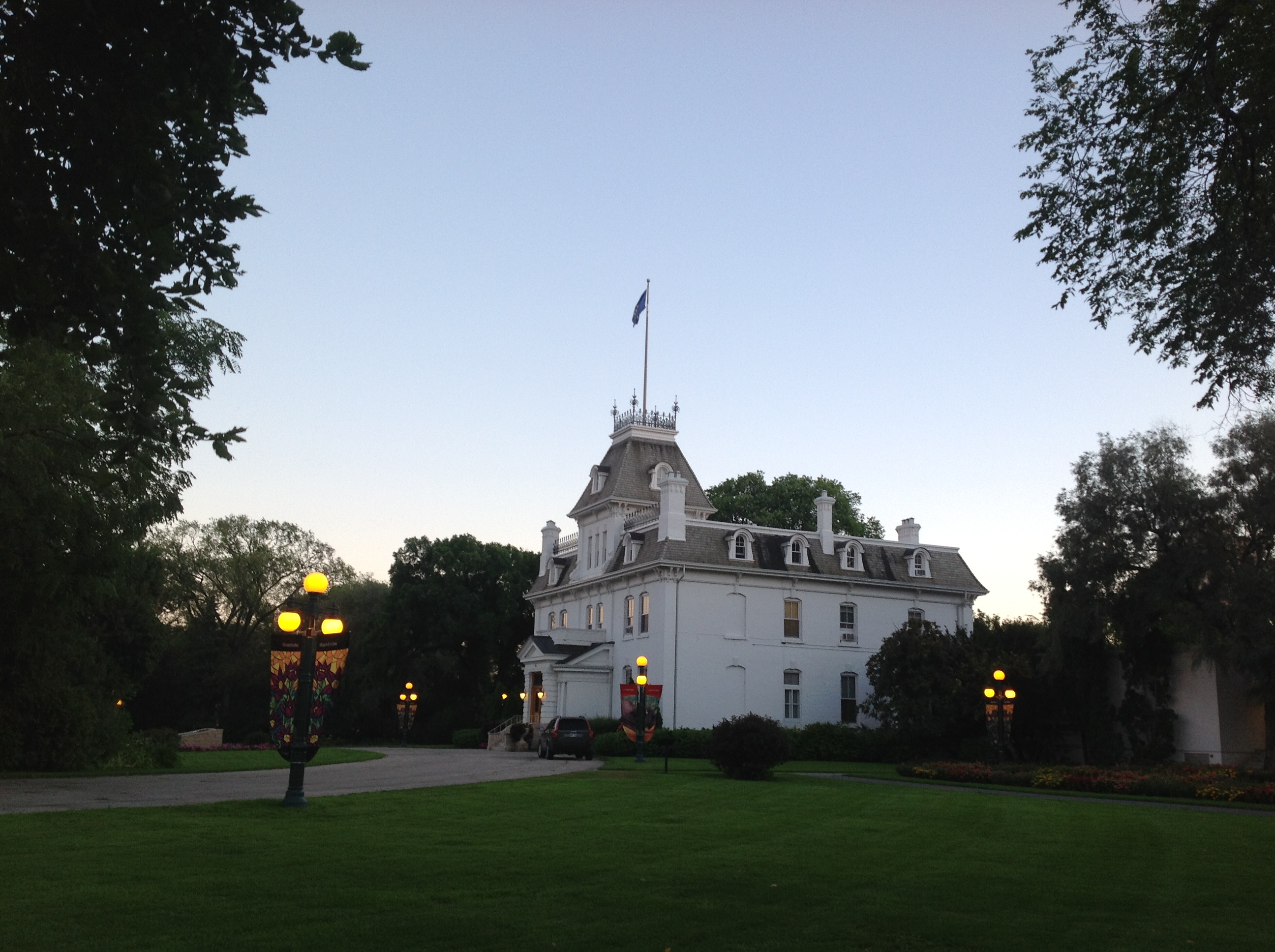 Gouvernment House, residence of the Lieuntenant-Govenor, Manitoba